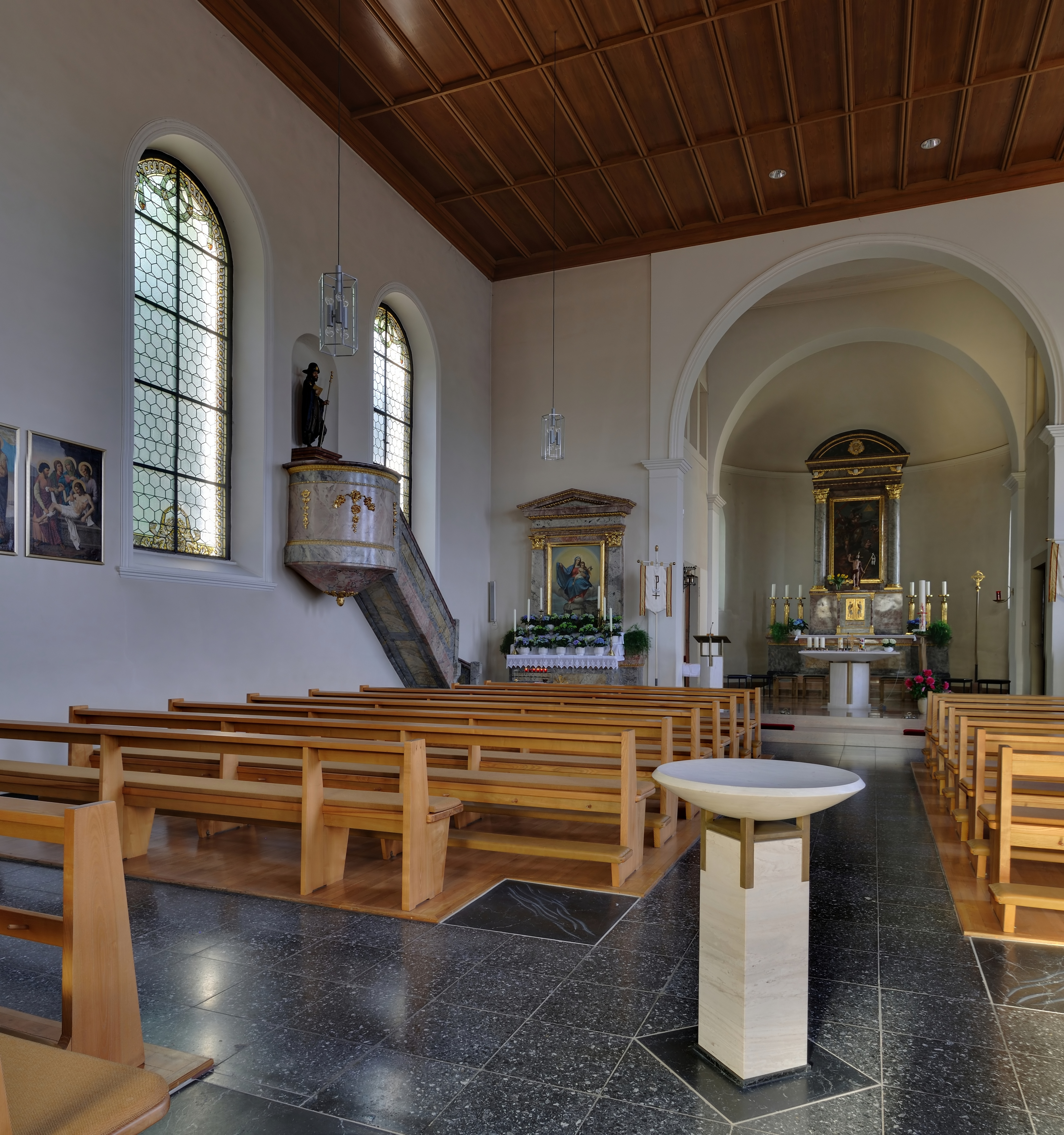 Istein: Saint Michaels Church